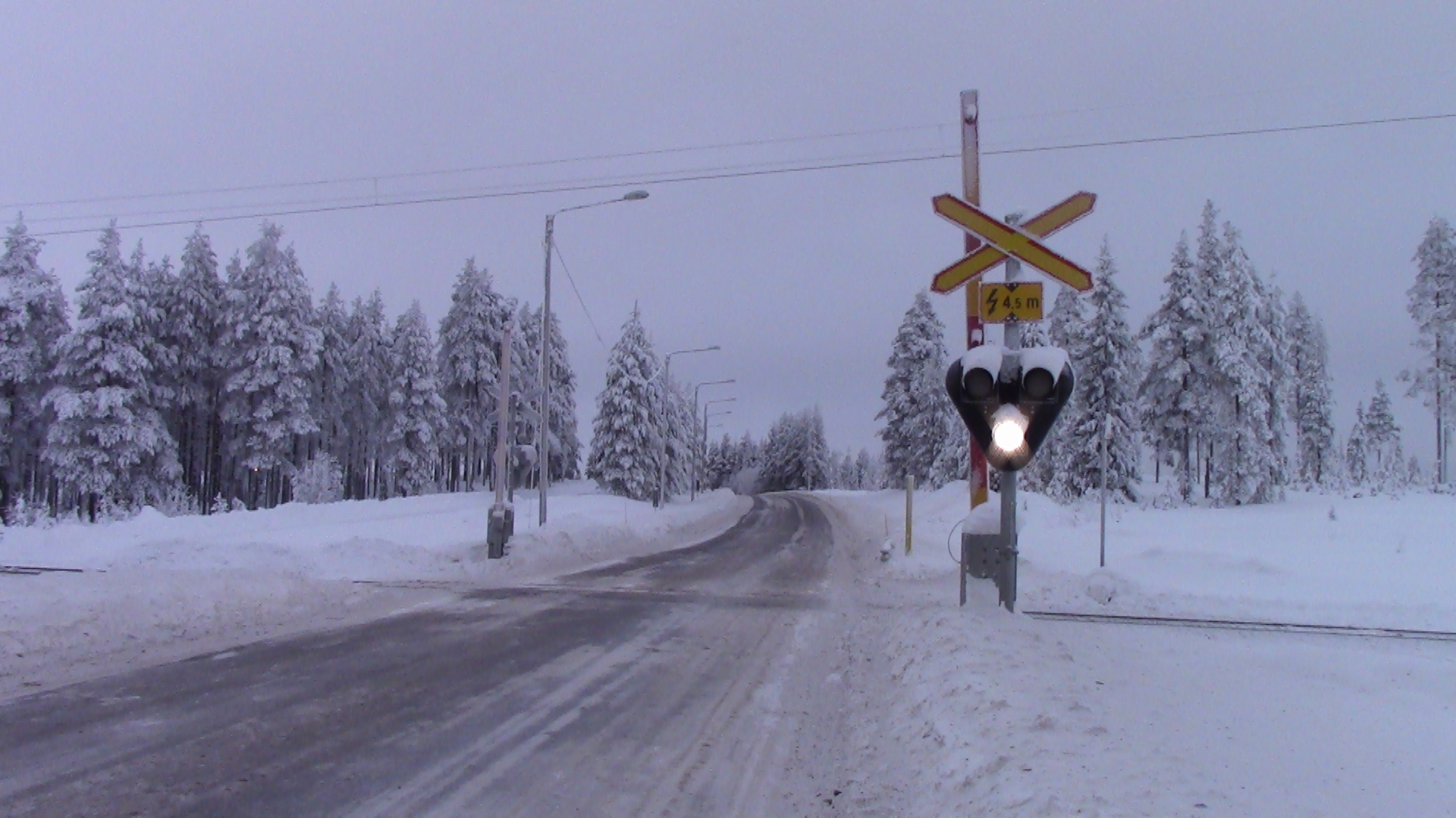 Finnish connecting road 9643 north of Kallanvaara suburb at Keitele Timber line's level crossing in Kemijärvi.